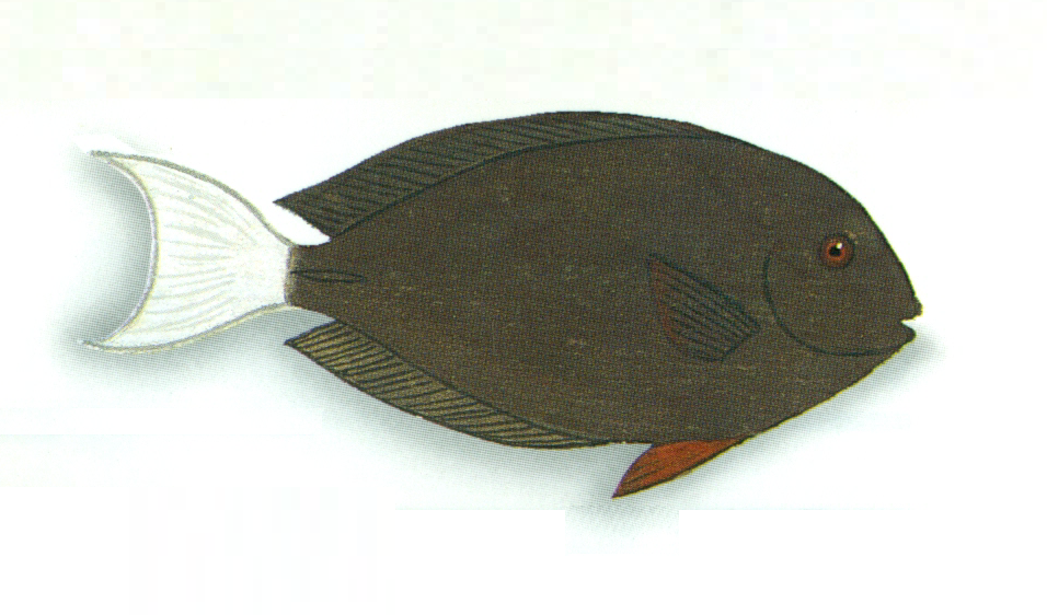 Acanthurus_thompsoni